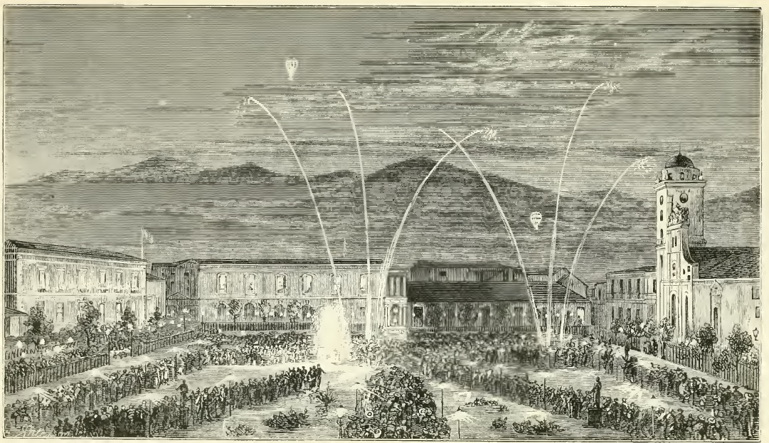 Celebraciones en la Plaza Bolívar (Caracas) con motivo de la victoria de Guzmán Blanco en la batalla de Apure. Febrero de 1872.